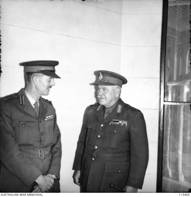 MELBOURNE, VIC. 1945-09-18. BRIGADIER A. S. BLACKBURN, VC, WHO COMMANDED AUSTRALIAN TROOPS IN JAVA, WITH GENERAL SIR THOMAS A. BLAMEY, COMMANDER-IN-CHIEF, ALLIED LAND FORCES, SOUTH WEST PACIFIC AREA, IN HIS HOME AT 486 PUNT ROAD.